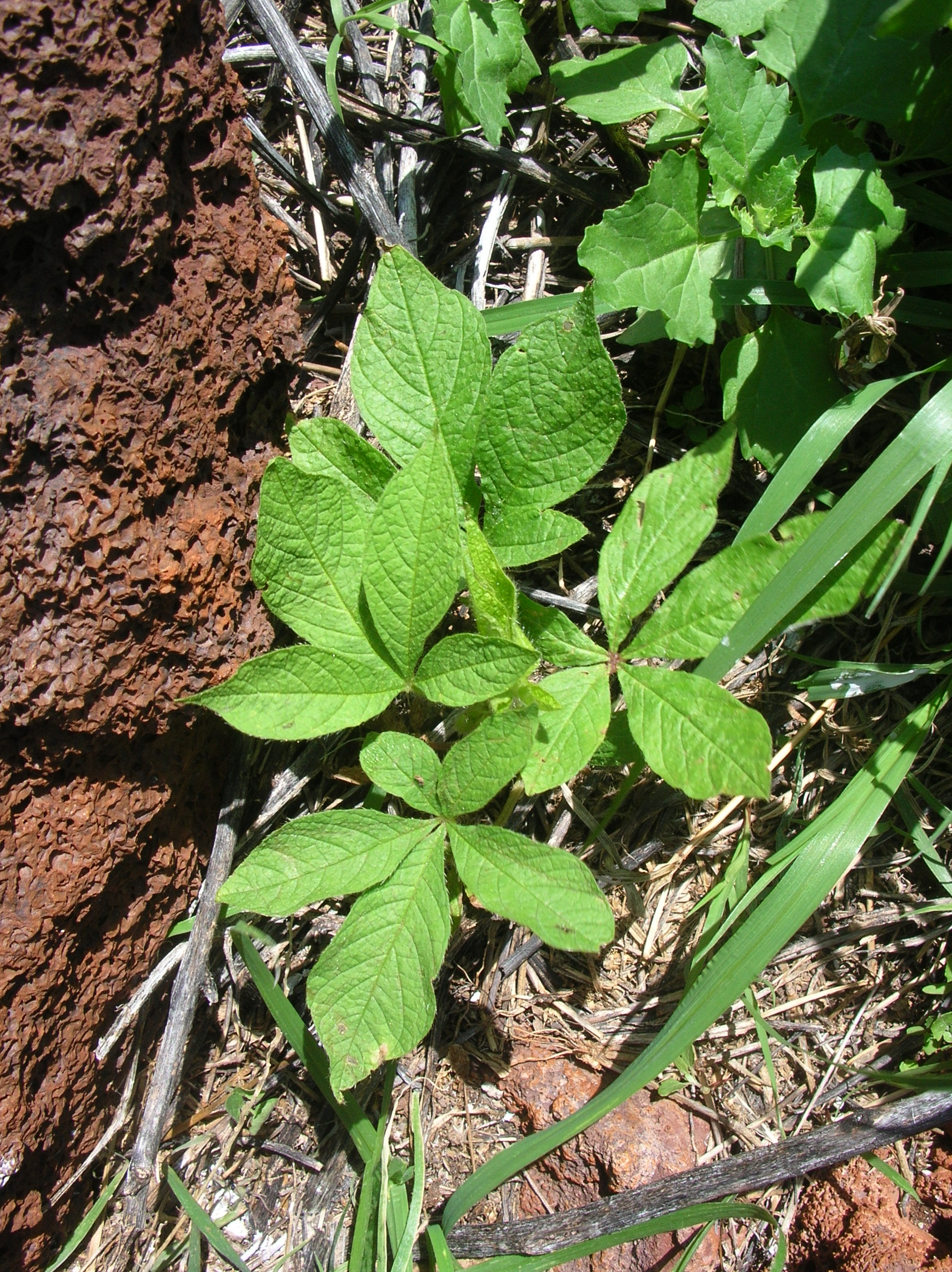 Merremia aegyptia (habit). Location: Lanai, Puu Pehe